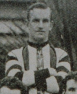 Photograph of Percy Wilmot in 1903